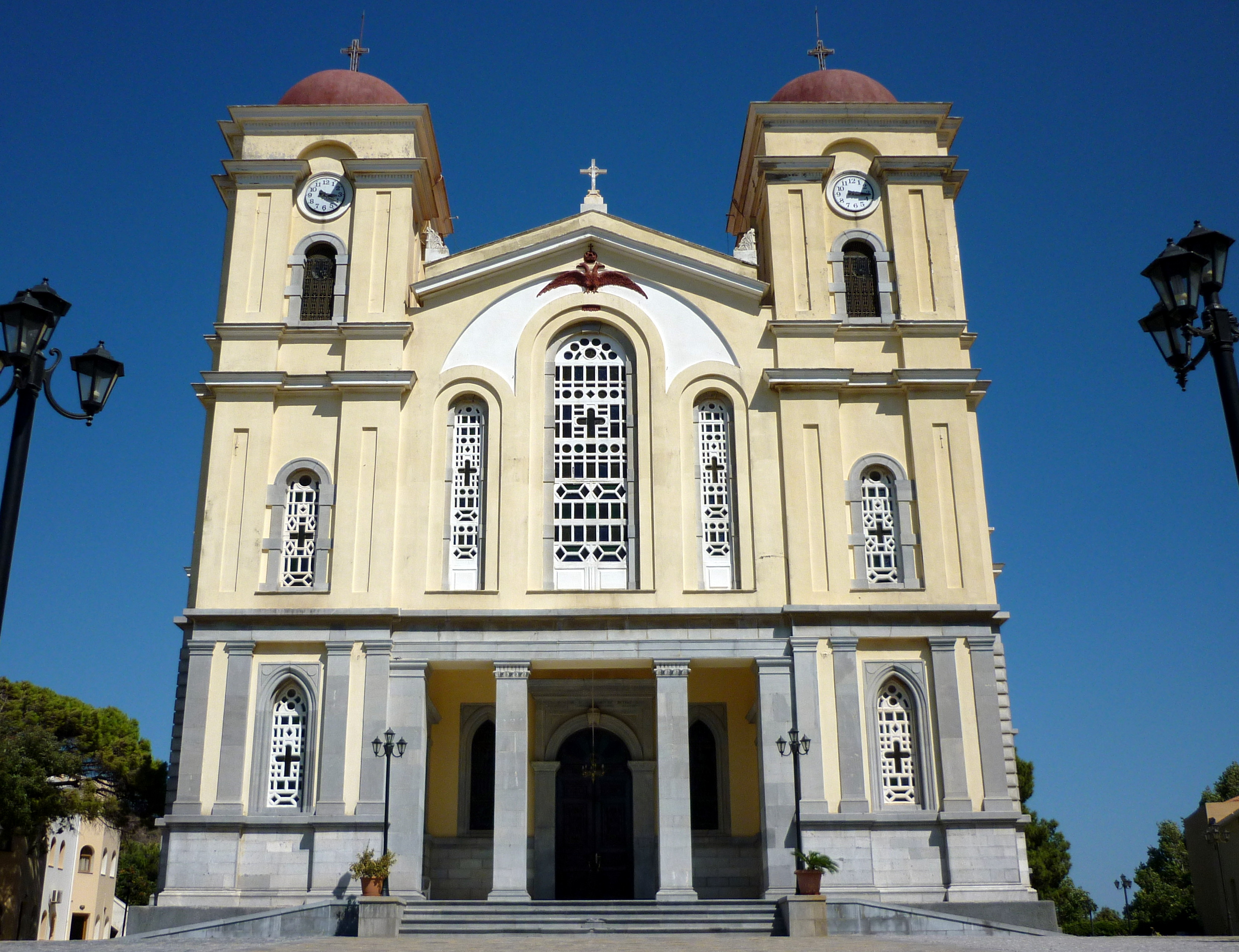 Church Megali Panagia of Neapoli, Crete